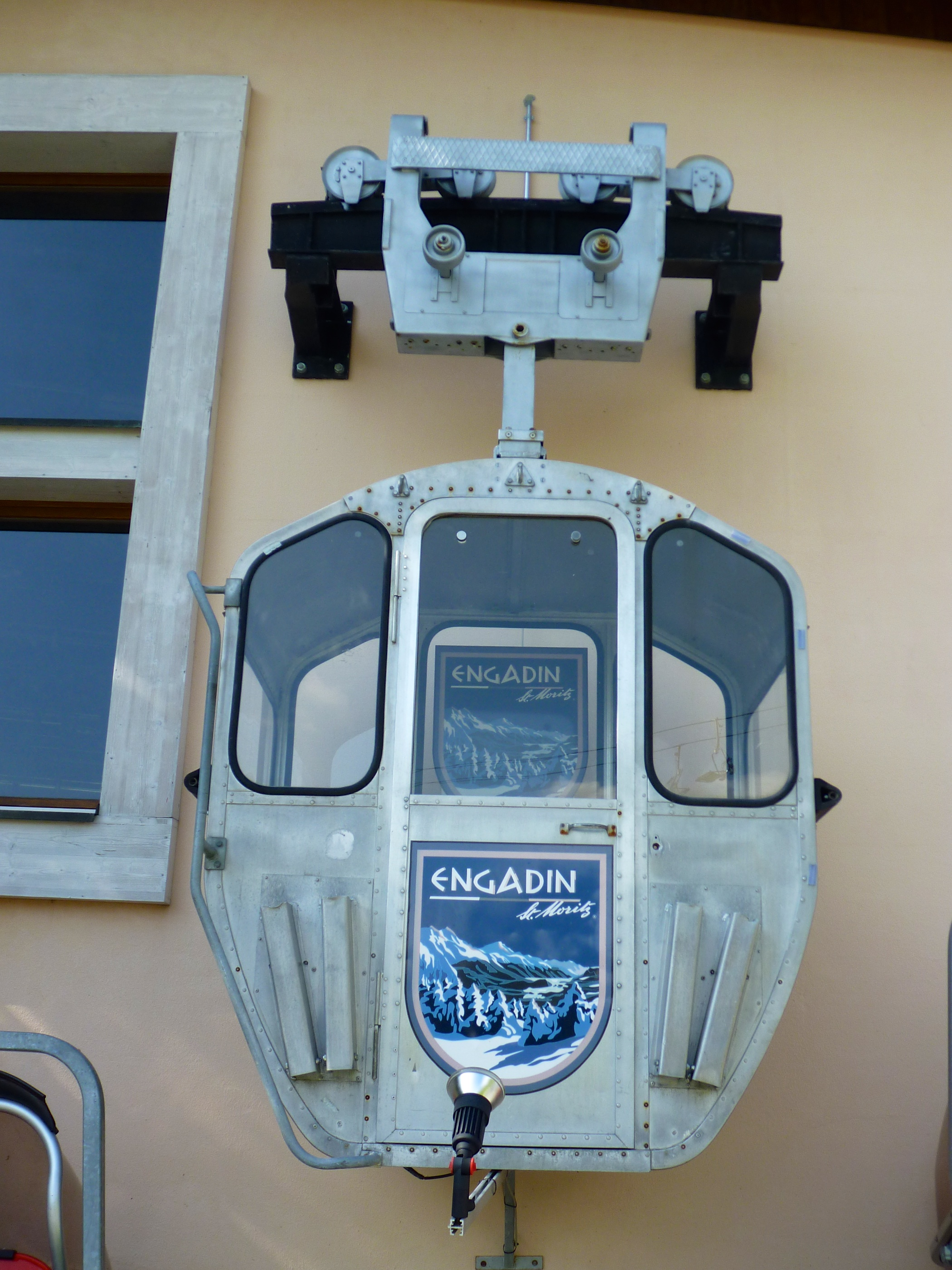 Gondola of former gondola lift Celerina-Marguns (in use 1958-1991), built by Bell/Switzerland